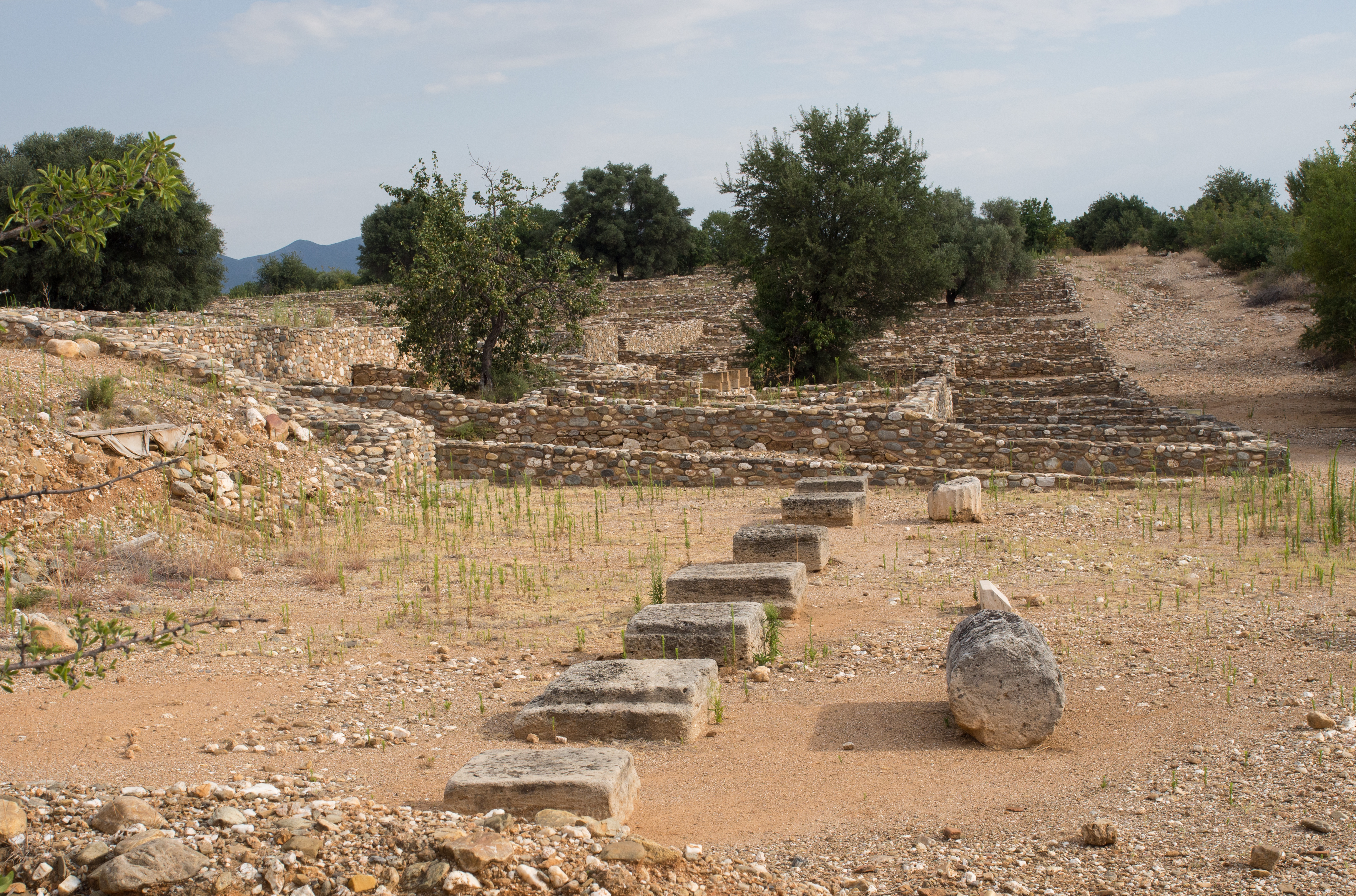 Bouleuterion in Olynthos. The public building was rectangular with 19 X 9,5 m. The pitched roof was supported by a central colonnade of 7 doric columns. The building ist dated to the last quarter of the 5 century BC.